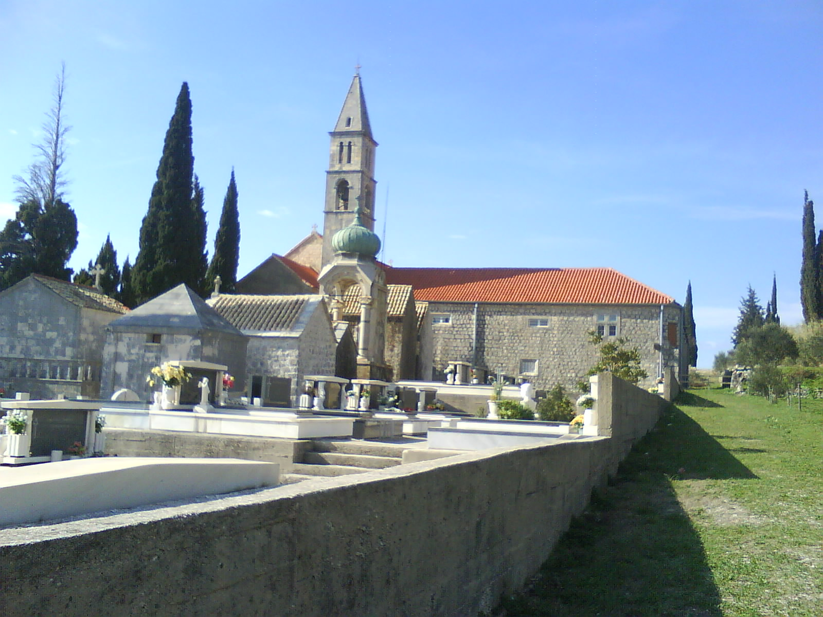 Franciscan church, monastery and cementery, on the hill abovew Orebićnear Orebić